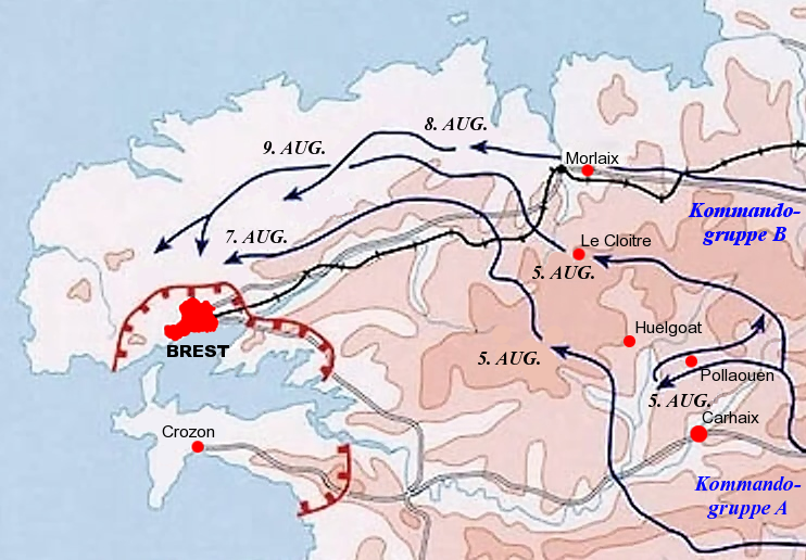 US advance to Brest